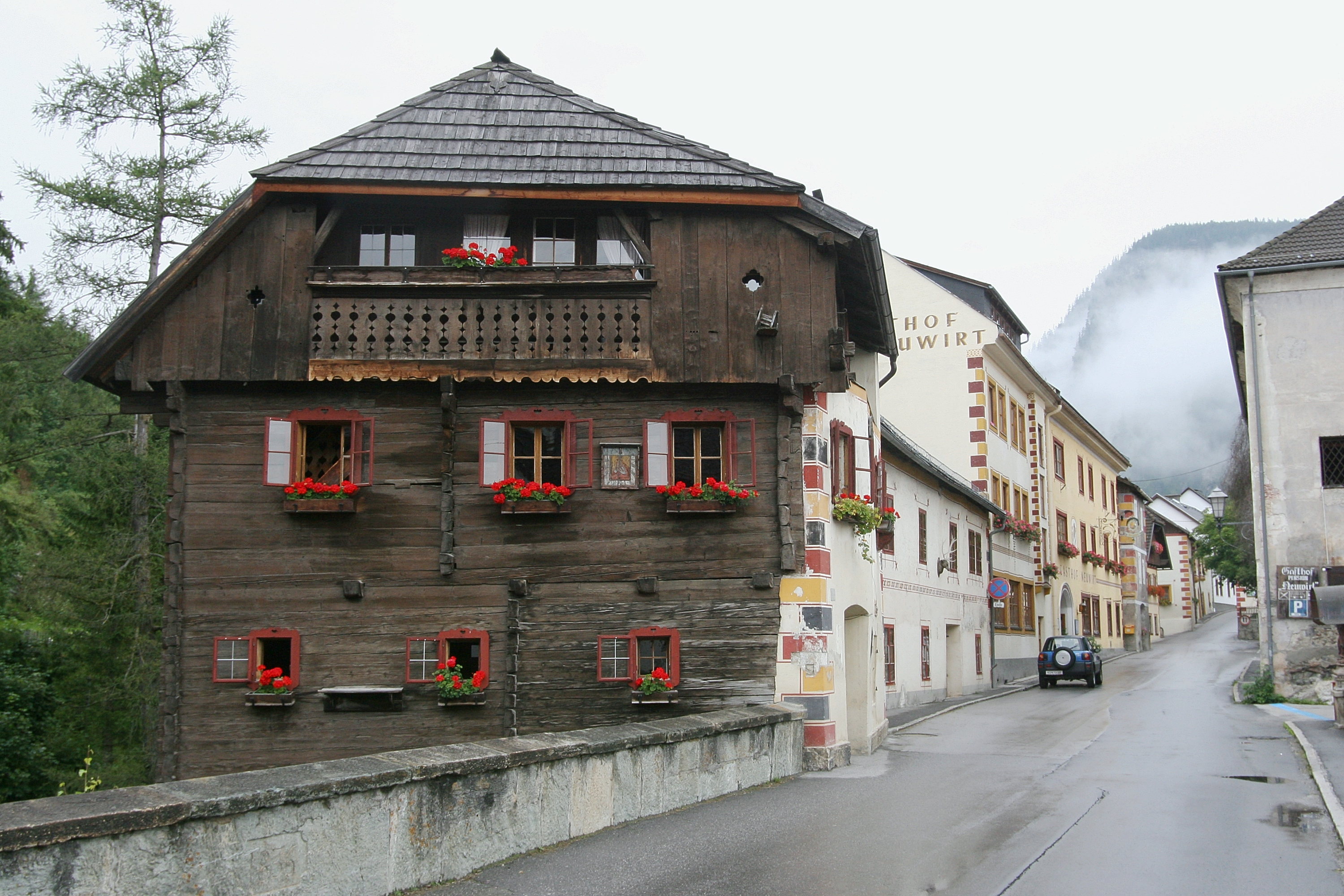 "Brückenkeusche" in Mauterndorf, former mill